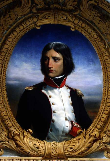 Napoleon Bonaparte en 1792, Lieutenant-Colonel du 1er bataillon des Gardes nationaux corses